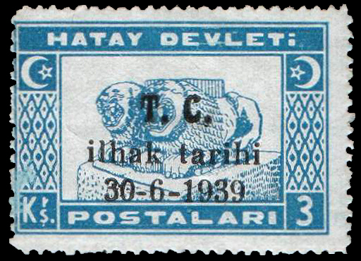 Postage stamp of Hatay (now Turkey) overprinted, 3 kurus, 1939